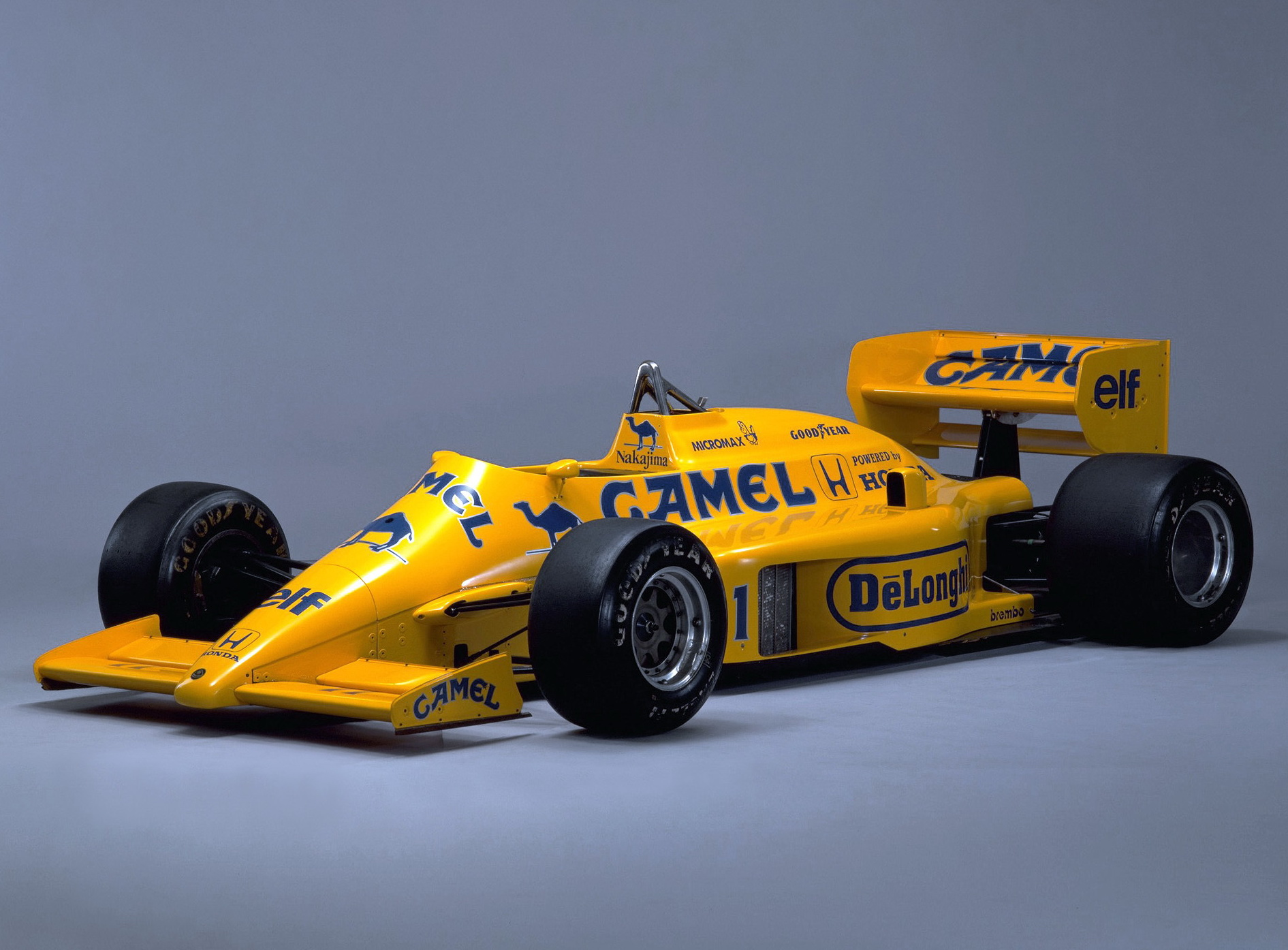 The Lotus 99T of Satoru Nakajima, used in the 1987 Formula One season.